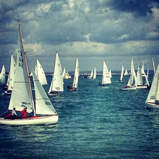 XOD Keelboats sailing in Cowes Week 2014